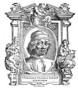 Illustratio from "Le Vite" by Giorgio Vasari, edition of 1568. For the artist portrayed see filename